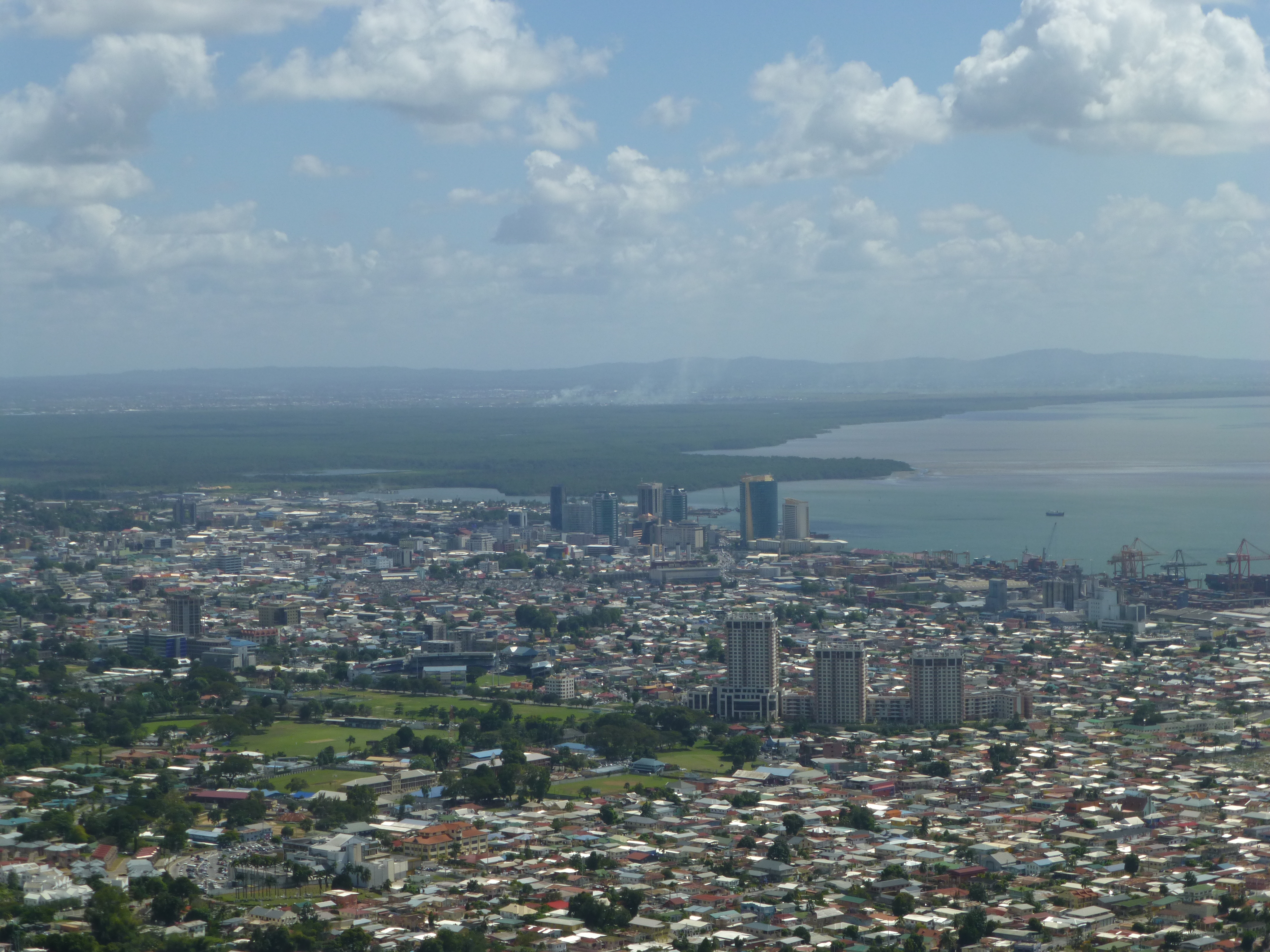 Port of Spain, as seen from Fort George Hill. Front: St. James. Behind tower buildings: Woodbrook, then Downtown. Behind city: Caroni Swamp. On the horizon: Central Range.